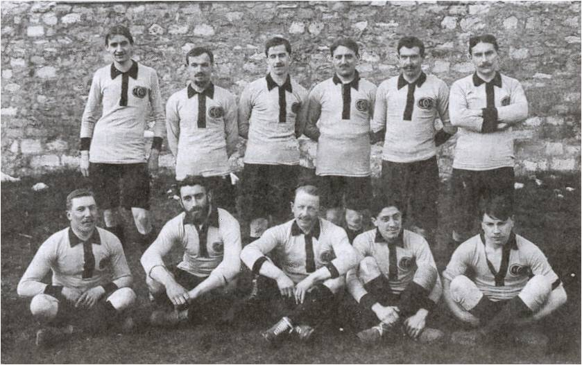 Football team of Amiens Athlétic Club in 1910 (former Amiens Sporting Club). Seated : Sellier, Fernand Petit, Henri Holgard, Duroselle, Cotté Standing : Jacques Moulonguet, Robert Poiré, an English (name unknown), Leleu, Henri Petit